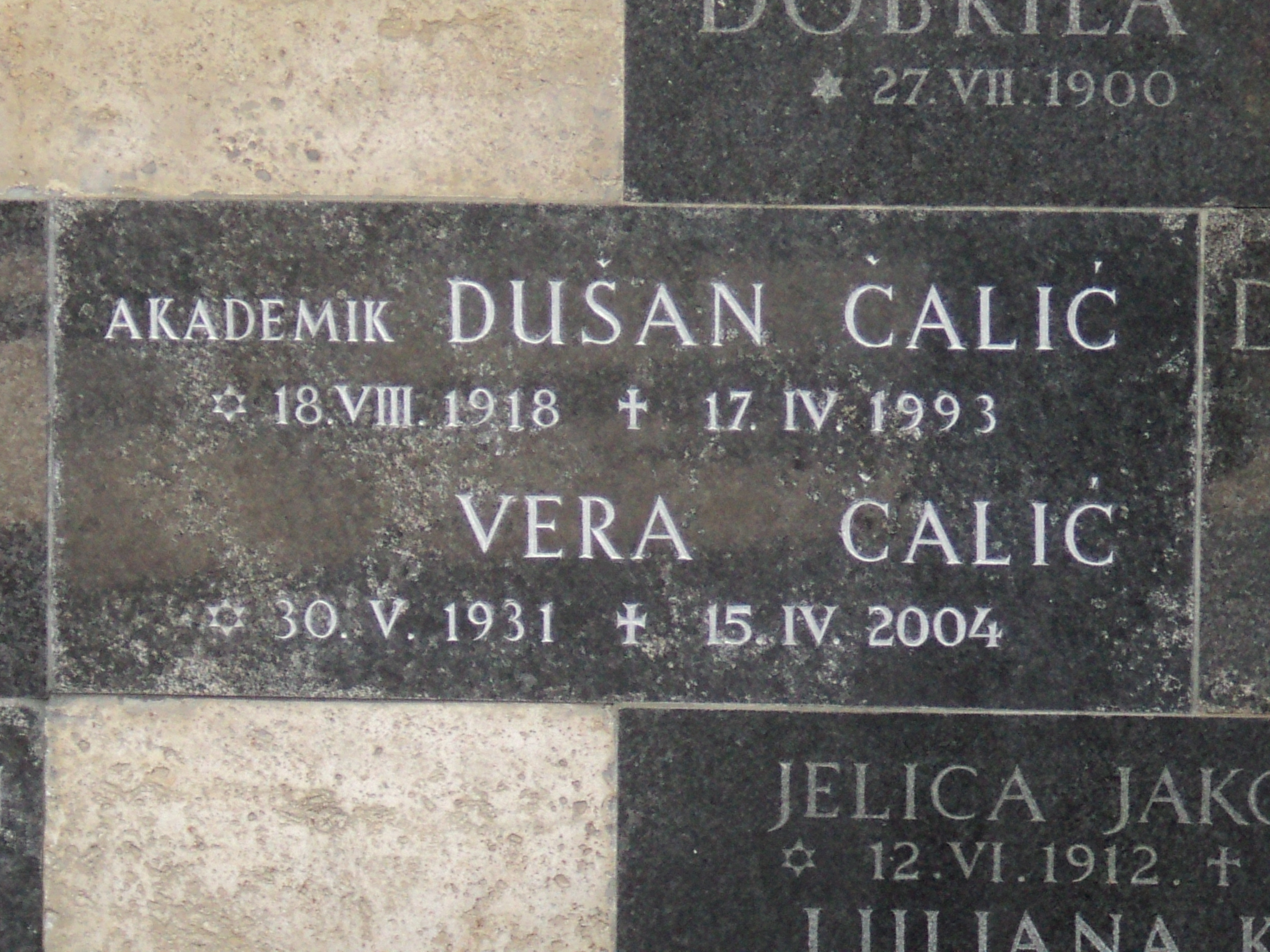 Plaque of the Dušan Čalić in Mirogoj arcades, zagreb.